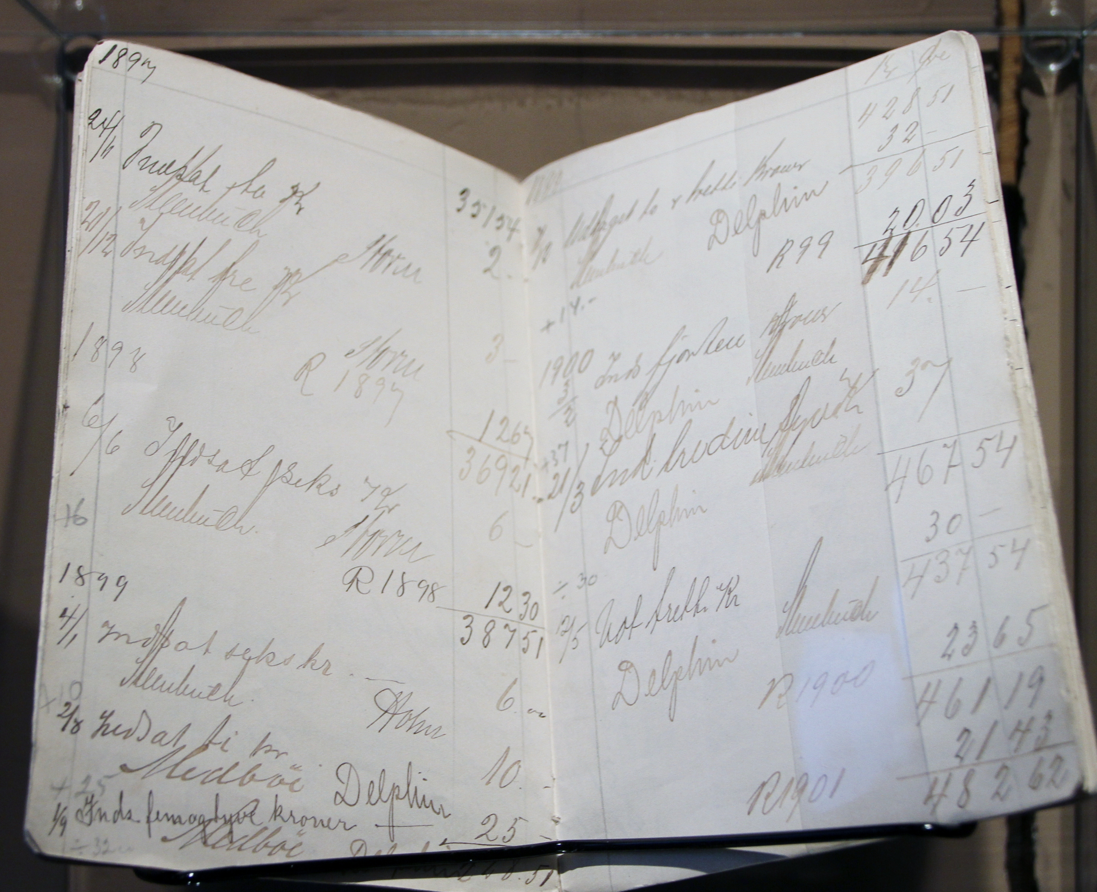 Bank savings book from the 1890, Christiania Sparebank (Oslo, Norway). Norsk folkemuseum.